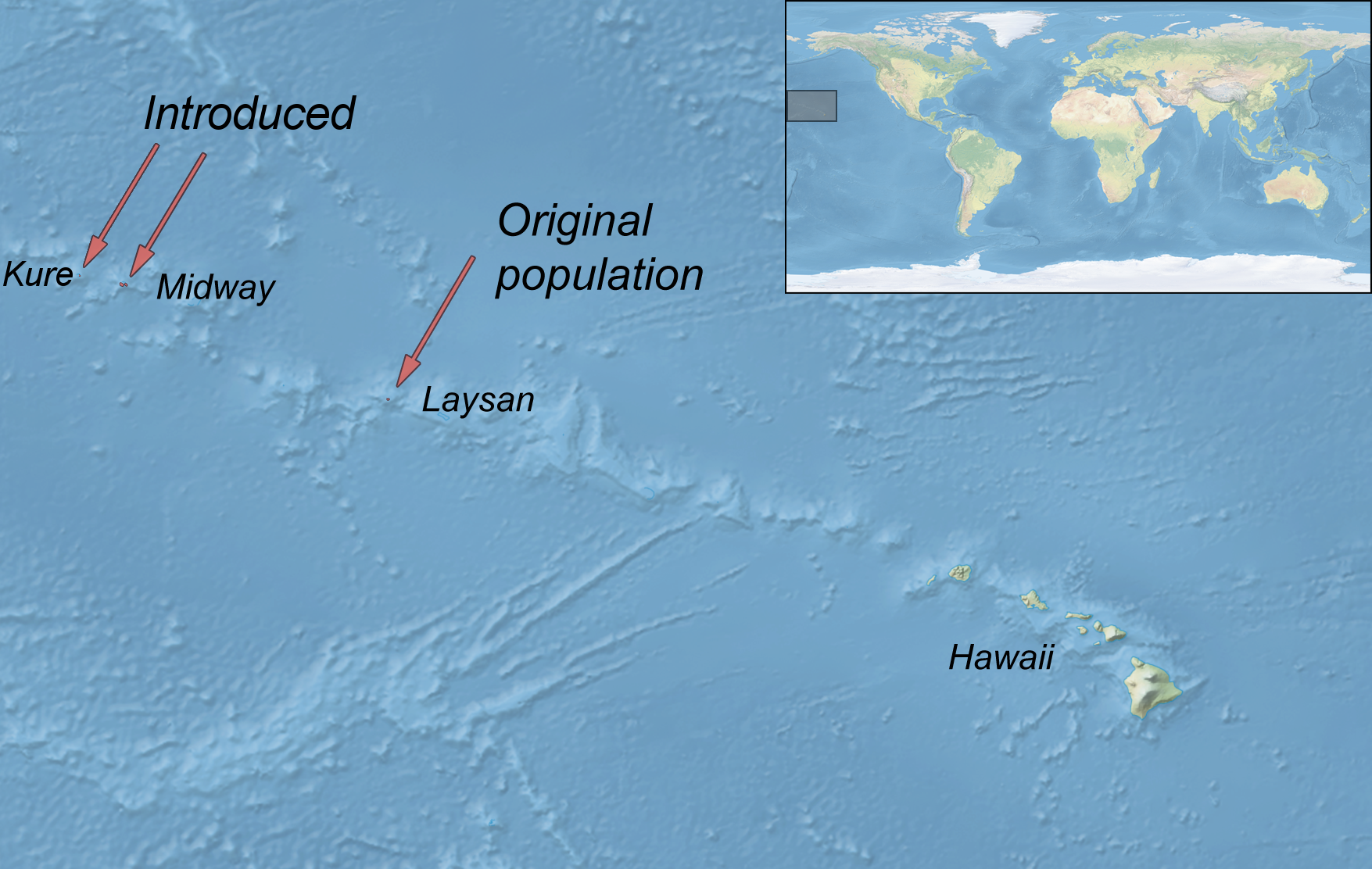 Distribution map of Anas laysanensis (Laysan Duck) with English annotation. Distribution data from BirdLife International 2010. Anas laysanensis. In: IUCN 2011. IUCN Red List of Threatened Species. Version 2011.2. . Downloaded on 11 February 2012. Map from Natural Earth